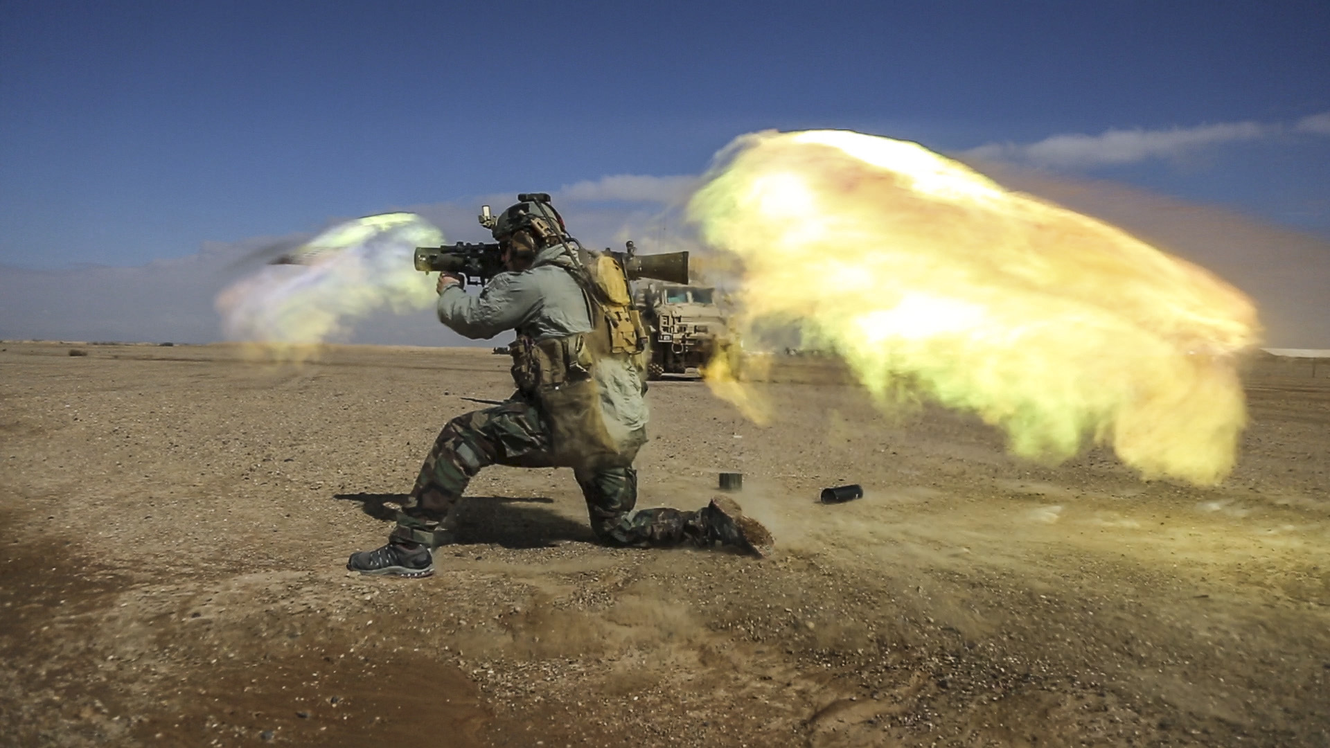 A coalition force member fires a Carl Gustav recoilless rifle system during weapons practice on a range in Helmand province, Afghanistan, Feb. 16, 2013. Coalition force members test fire various weapons systems on the range to check accuracy. (U.S. Army photo by Sgt. Benjamin Tuck/Released) Combined Joint Special Operations Task Force – Afghanistan Photo by Sgt. Benjamin Tuck Date Taken:02.16.2013 Location:WASHER DISTRICT, AF Read more